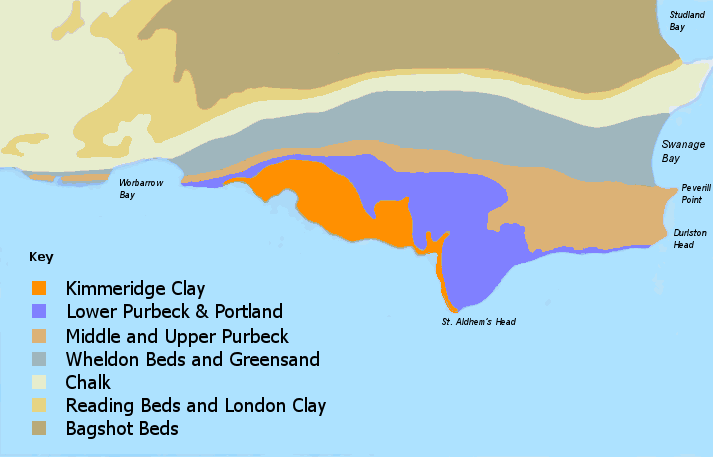 Swanage Geology Map, creating using Paint Shop Pro. Jamie S 16:16, 18 July 2008 (UTC)